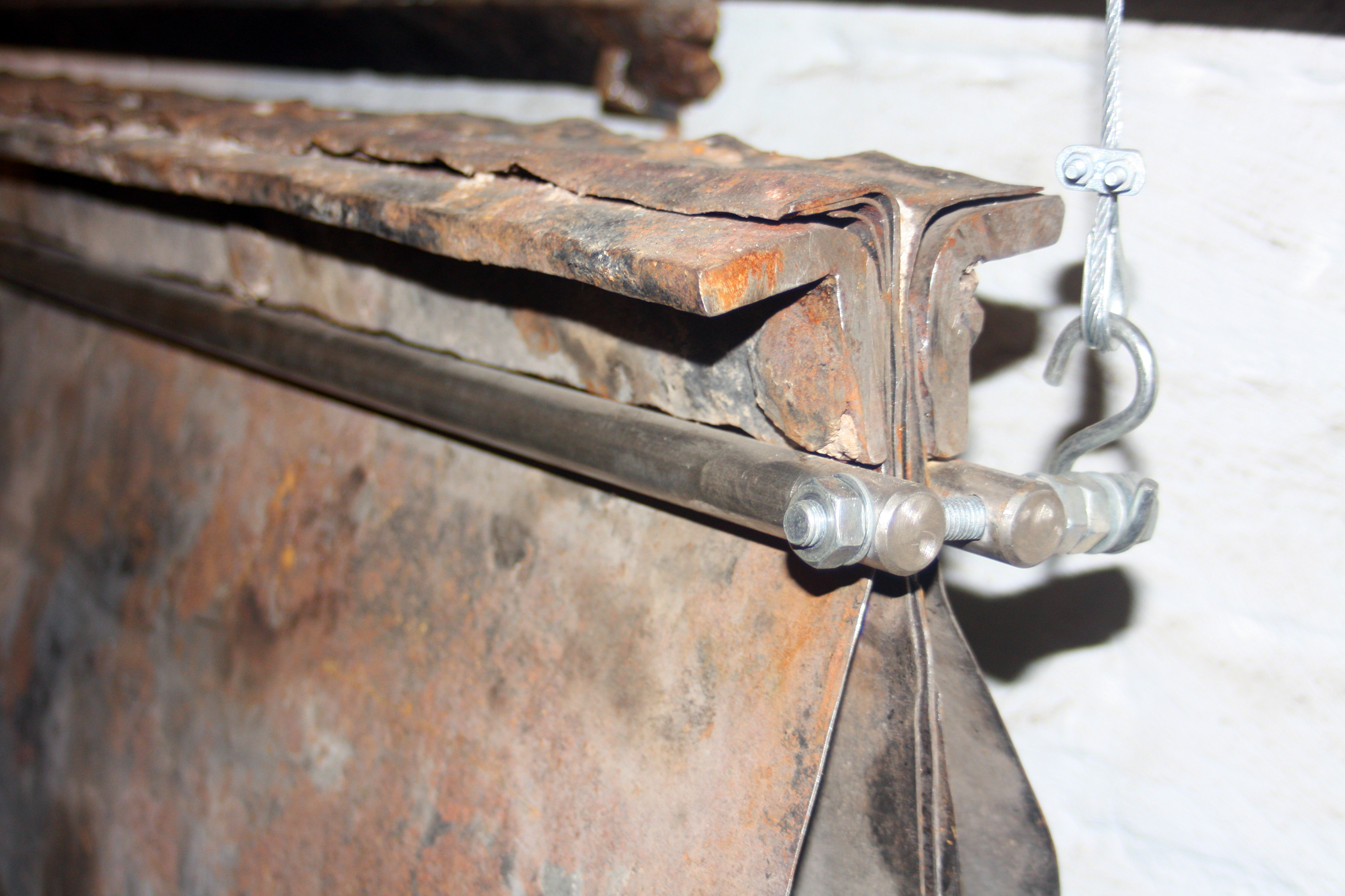 I-beam of engineer Clark